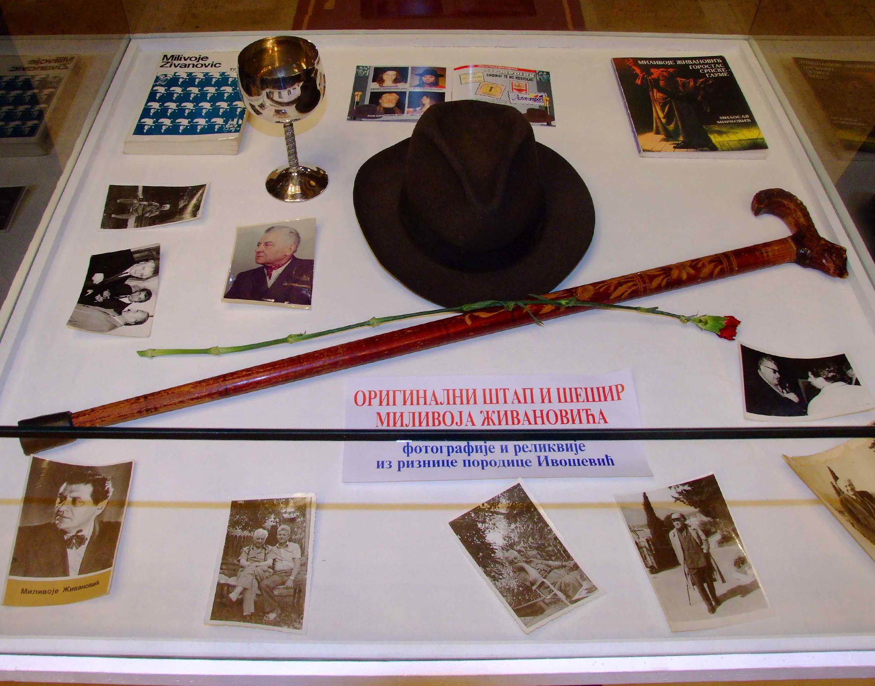 Original stick and hat of Milivoje Živanović in showcase